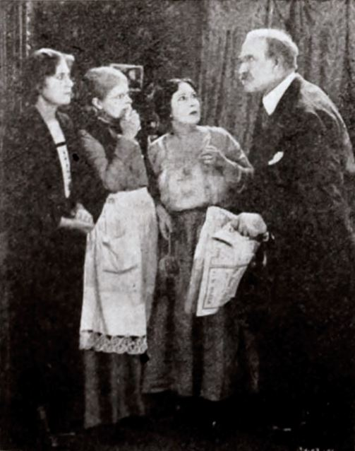 Still from the American comedy drama film Miss Lulu Bett (1921) with Lois Wilson and Theodore Roberts, on page 40 of the February 4, 1922 Exhibitors Herald.